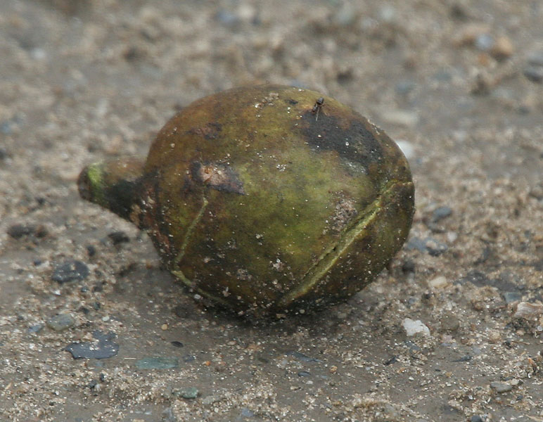 Description corrected as Terminalia bellirica at Jayanti in Buxa Tiger Reserve in Jalpaiguri district of West Bengal, India.